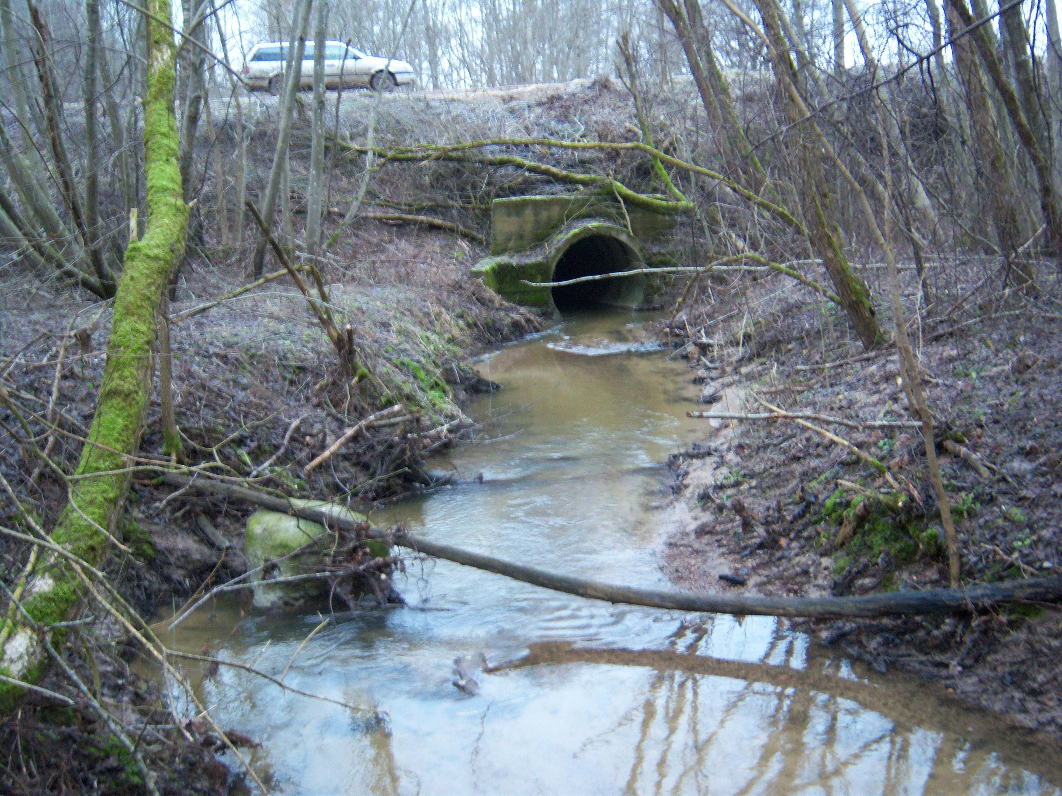 Jaujupis stream, Raseiniai district, Lithuania